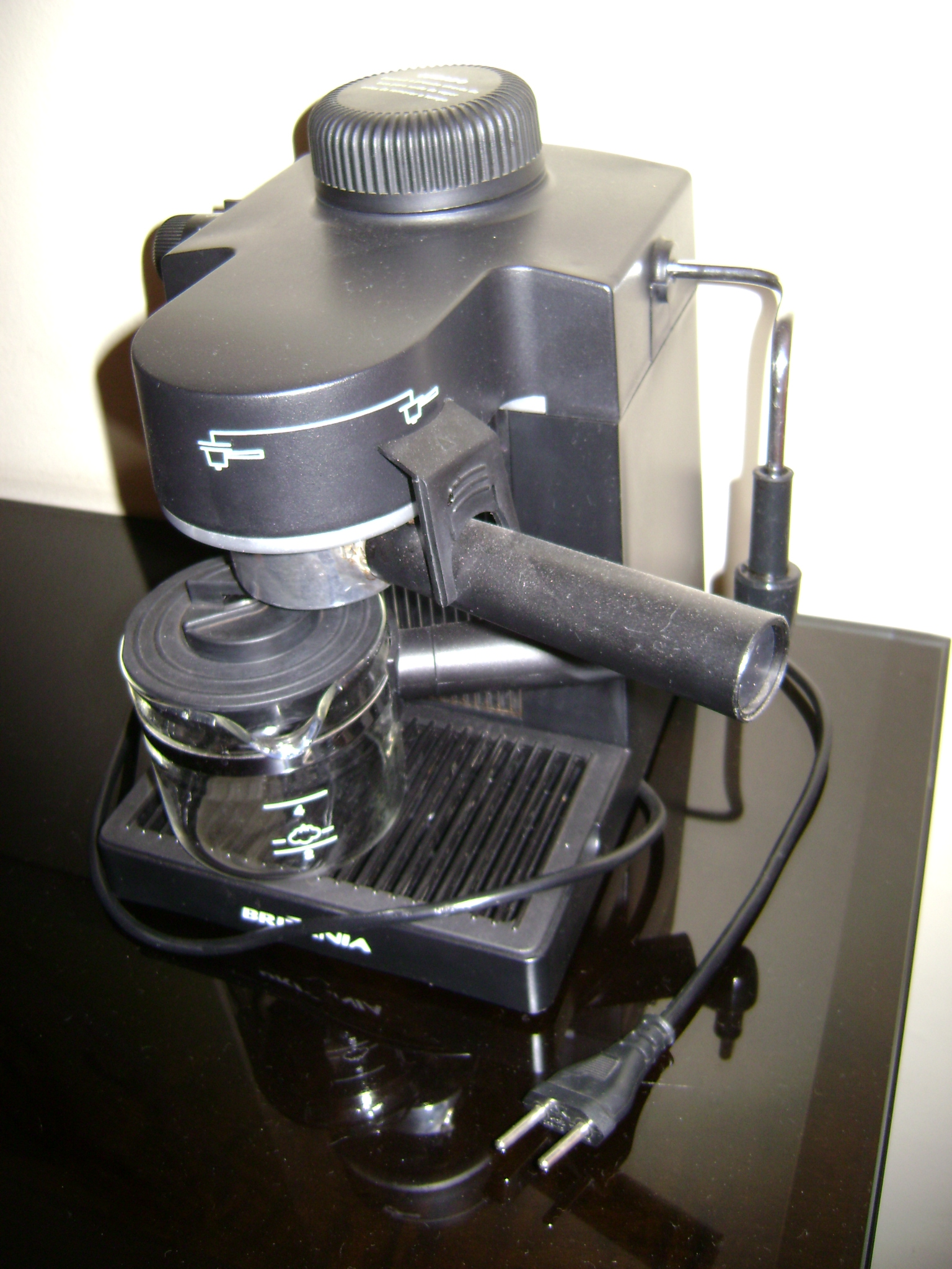 Coffeemaker